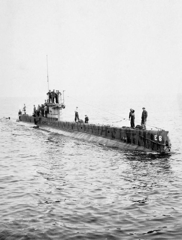 IWM caption : "THE NAVAL CAREER OF COMMANDER F H GOODHART DSO RN. The British submarine HMS E8 returning from patrol in the summer of 1916.